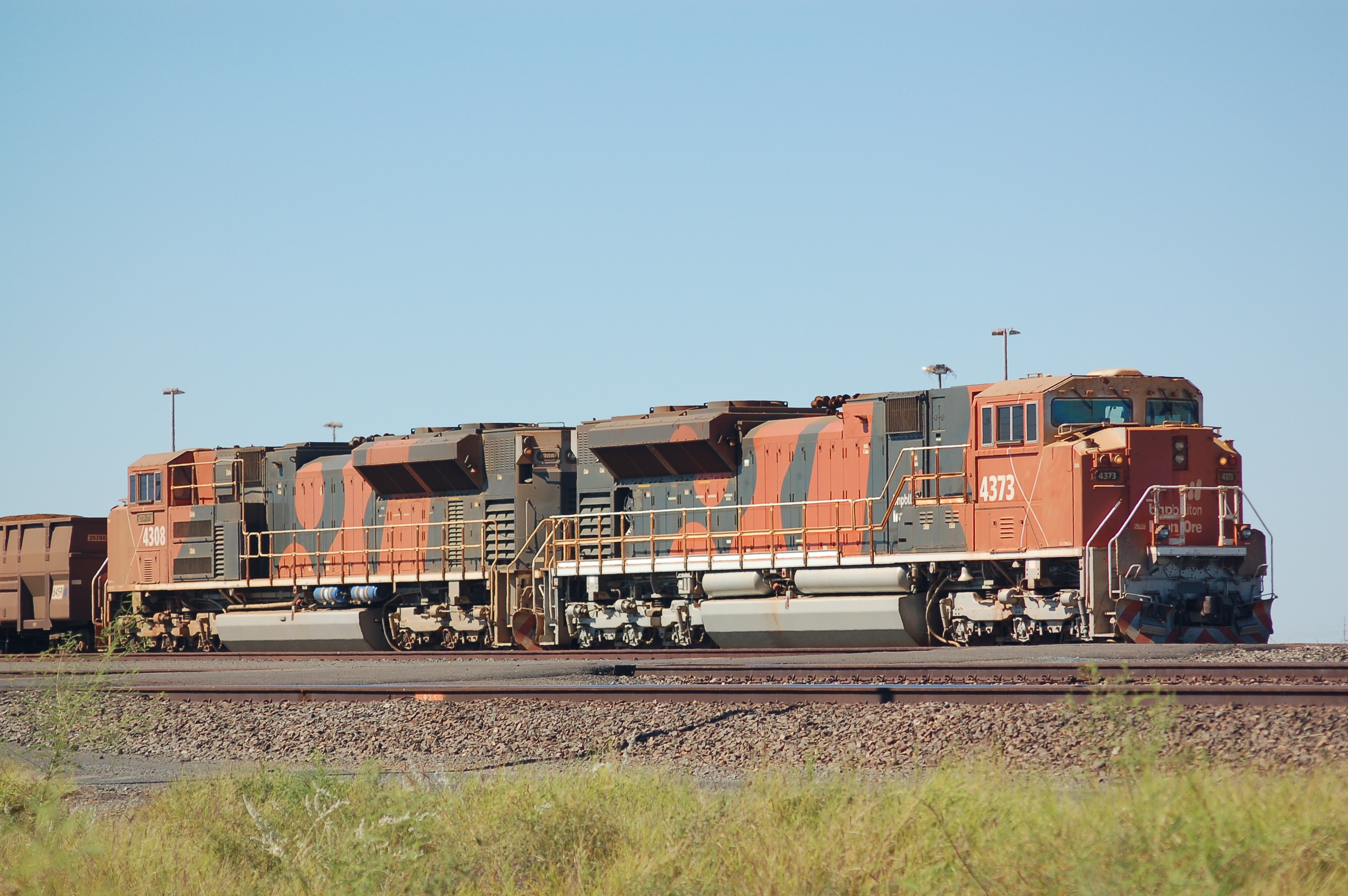 BHP Billiton Iron Ore EMD SD70ACe locomotives nos. 4308 Cowra (left) and 4373 (right), at the head of a loaded train at Nelson Point yard, Port Hedland, the northern end of the Mount Newman railway, Western Australia.